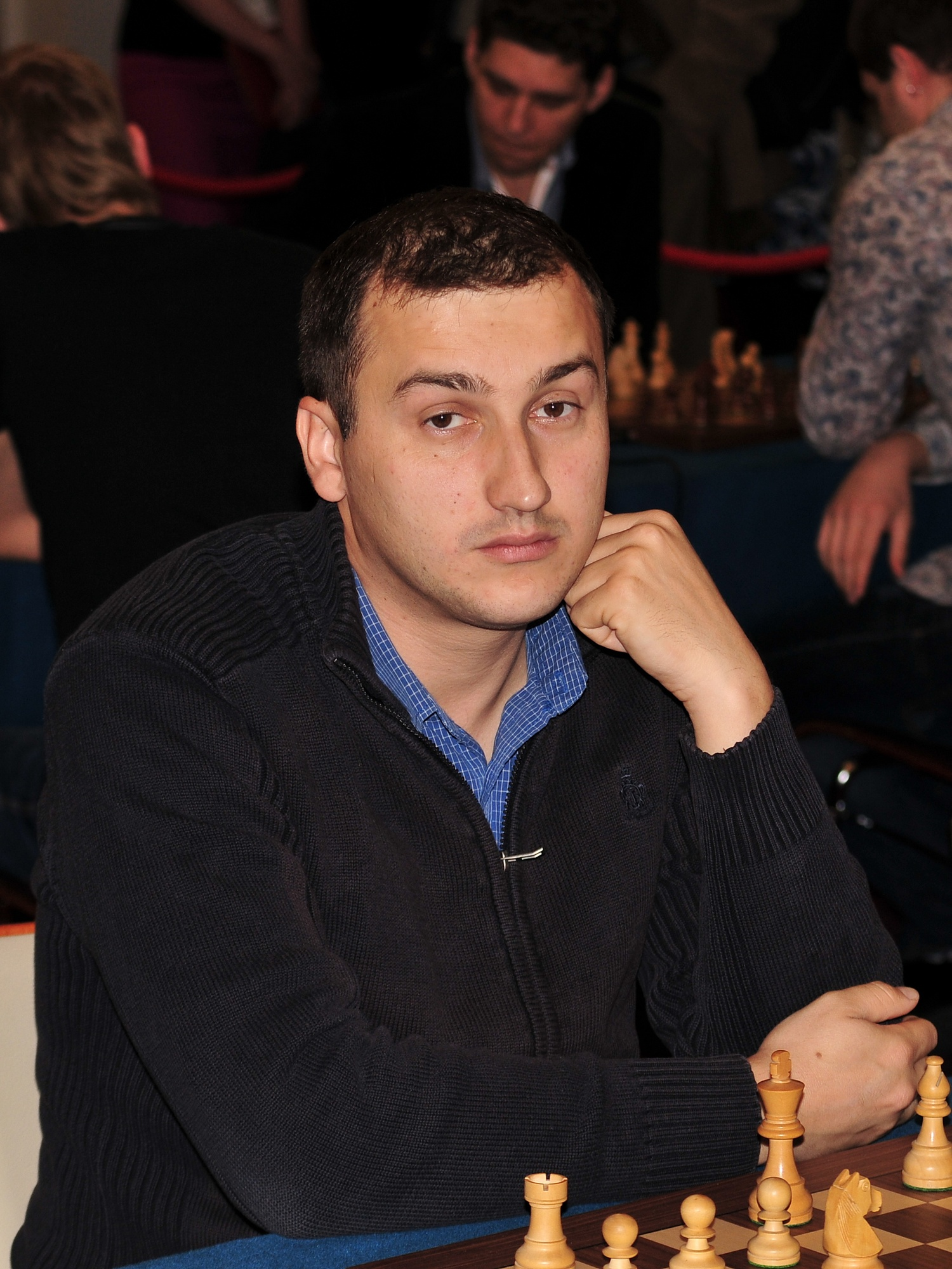 GM Hrvoje Stević, European Chess Team Championship Warsaw 2013